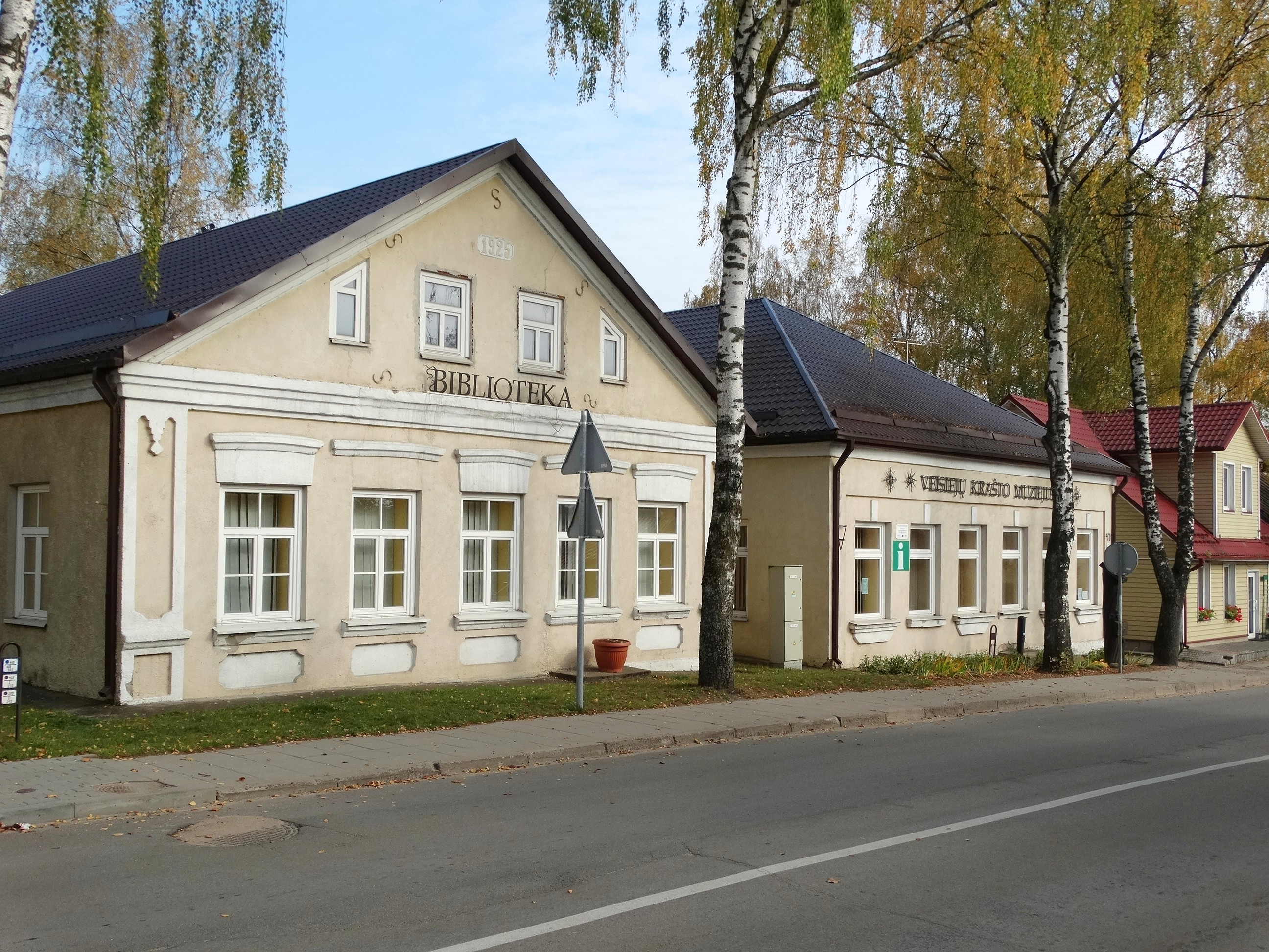 Library, museum in Veisiejai, Lithuania